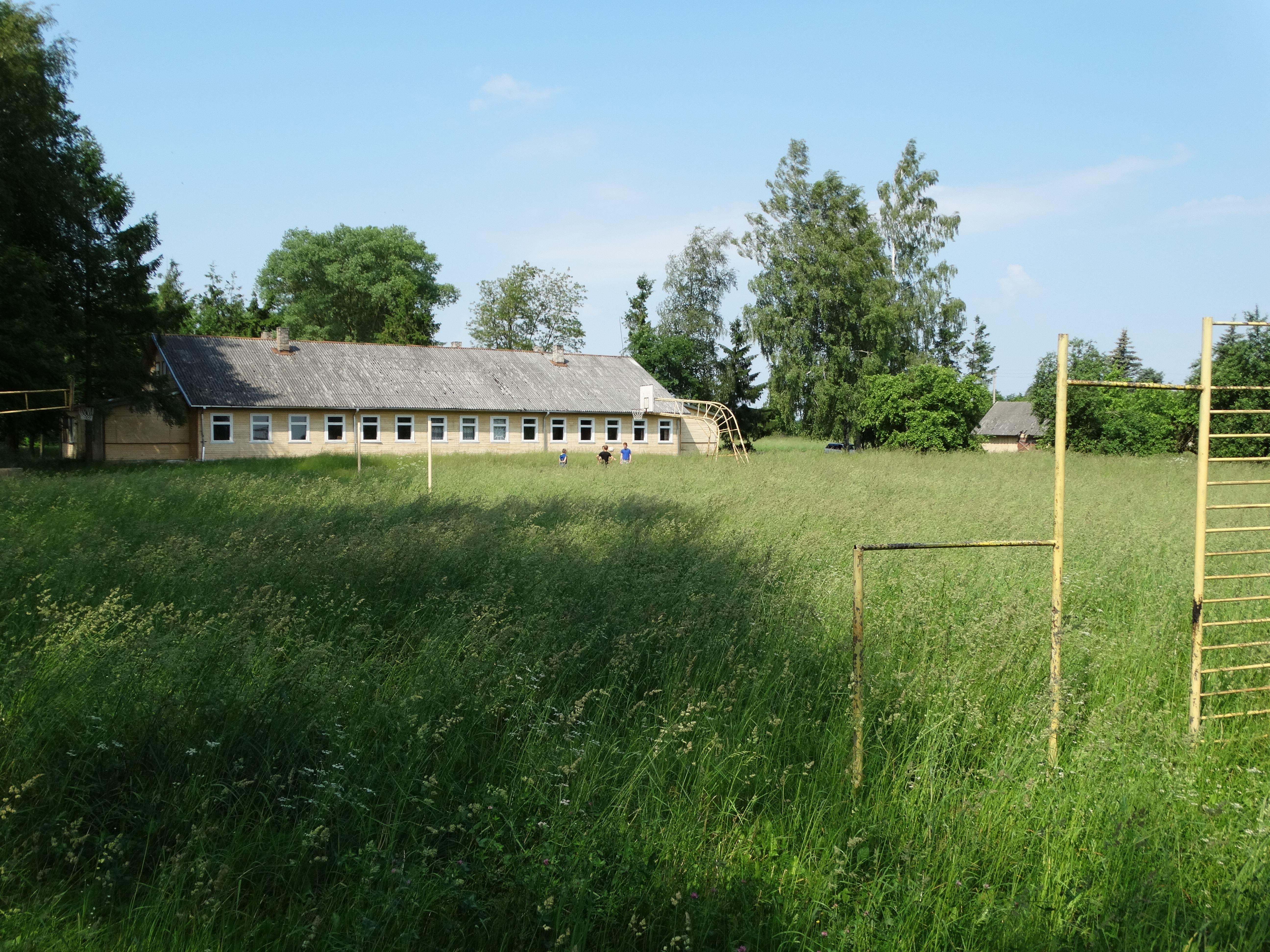 School, Jakutiškiai, Ukmergė District, Lithuania